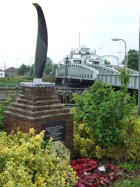 Memorial to RAF Sutton Bridge in Sutton Bridge with Crosskeys Bridge in the background.